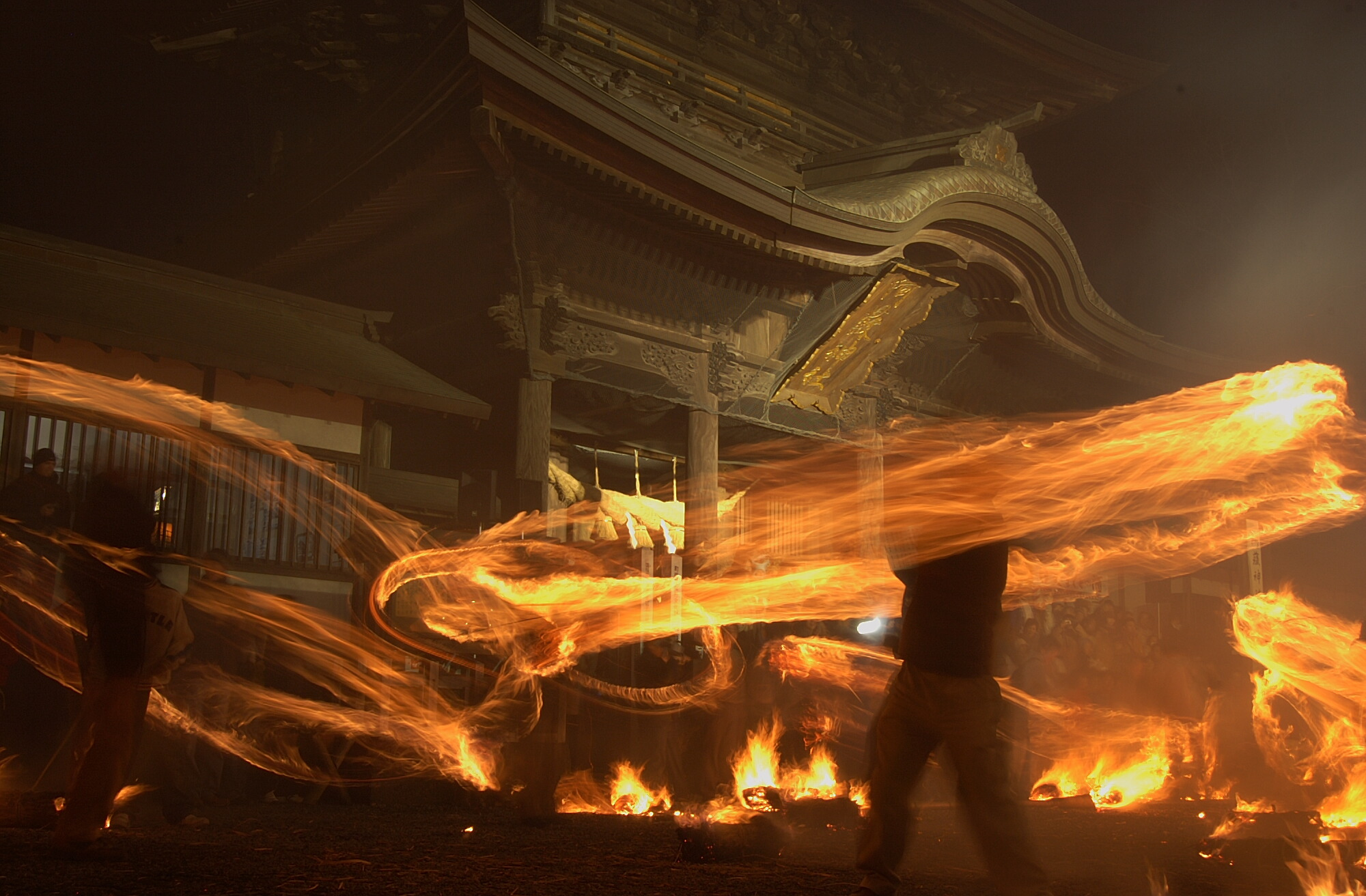 The fire swinging festival at Aso Shrine, Ichinomiya, Aso City, Kumamoto.